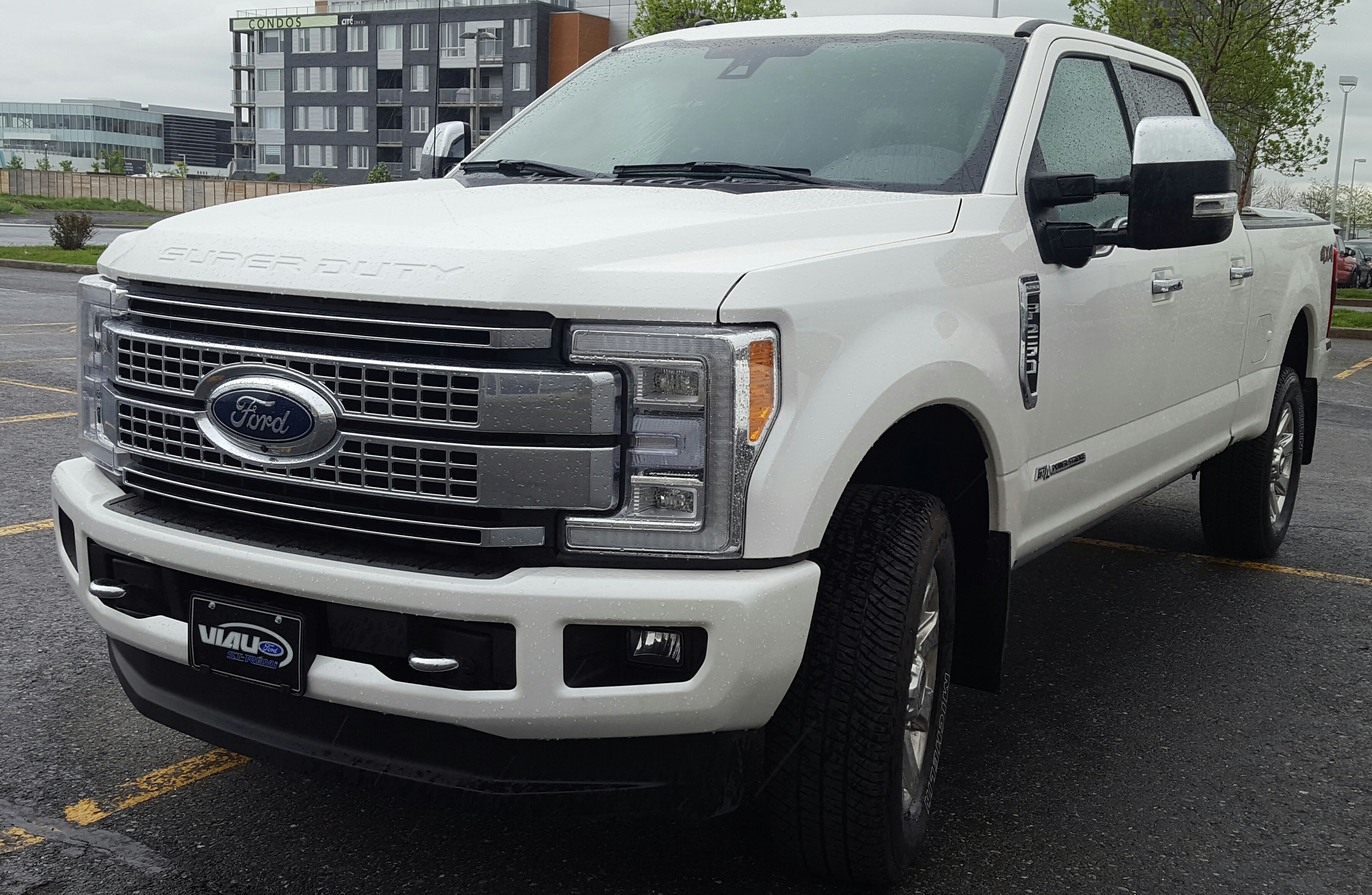 2017 Ford F-250 Super Duty photographed in Brossard, Québec, Canada.